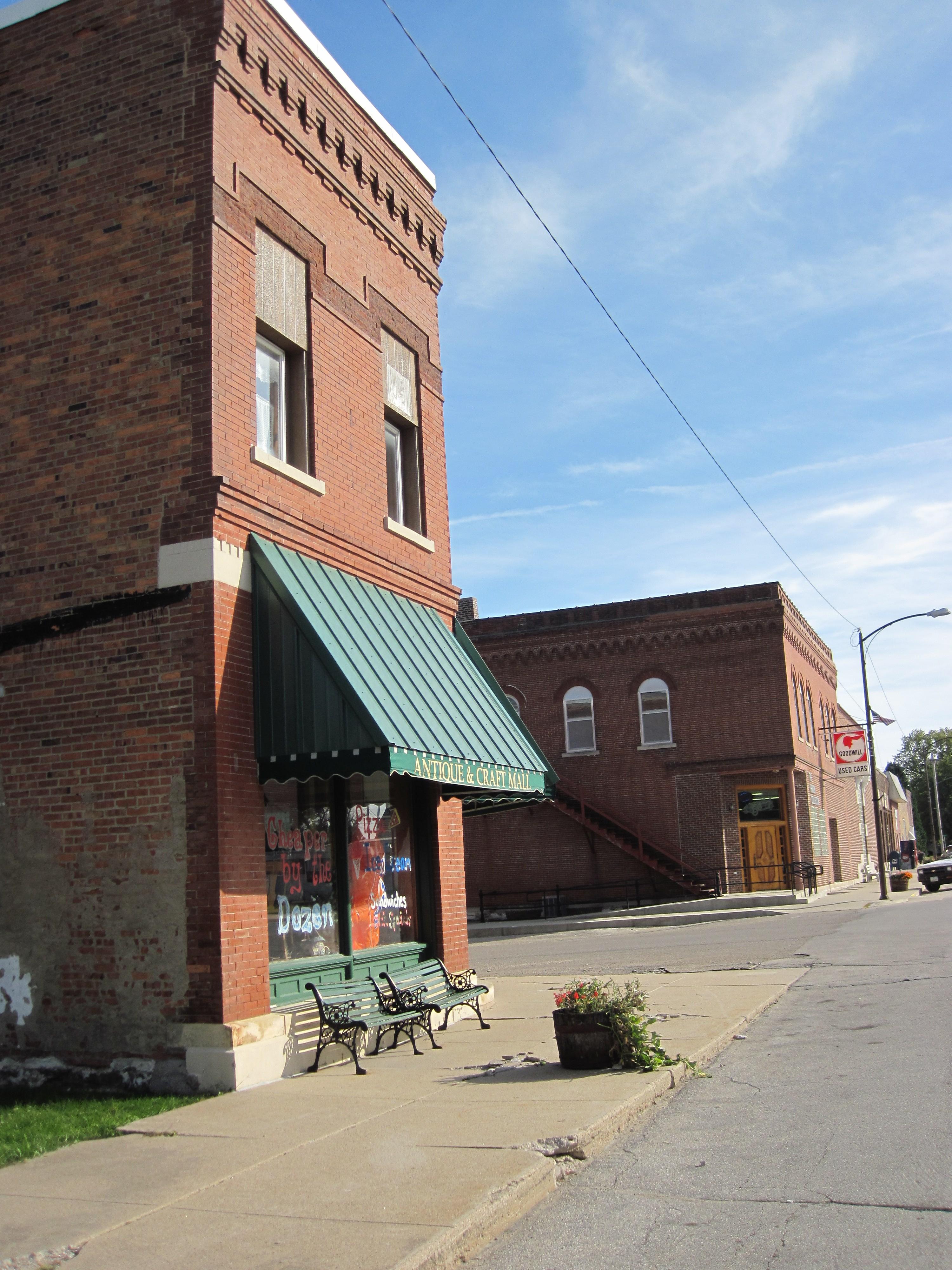 Williams Bill Whittaker (talk) 13:04, 2 October 2009 (UTC)